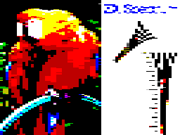 A rendering of Image:Parrot.red.macaw.1.arp.750pix.jpg on the ZX Spectrum 64×192 display.